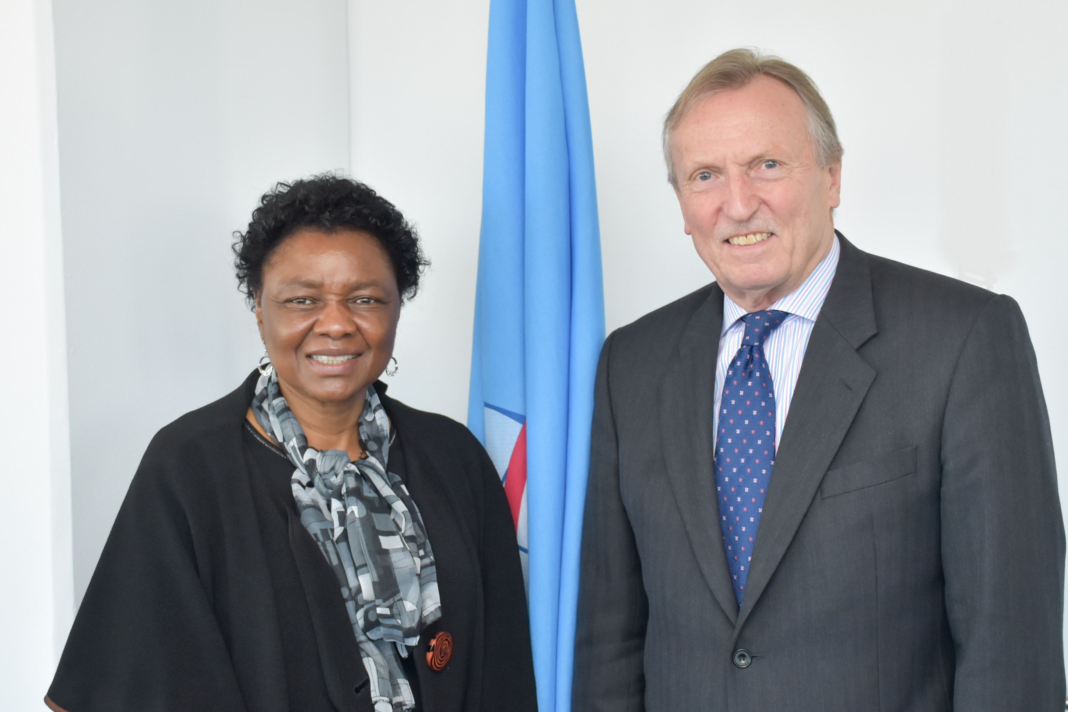 Her Excellency Professor Hlengiwe Mkhize, Deputy Minister of Communications of South Africa meets with Malcolm Johnson during WSIS - Geneva, 6 May 2016